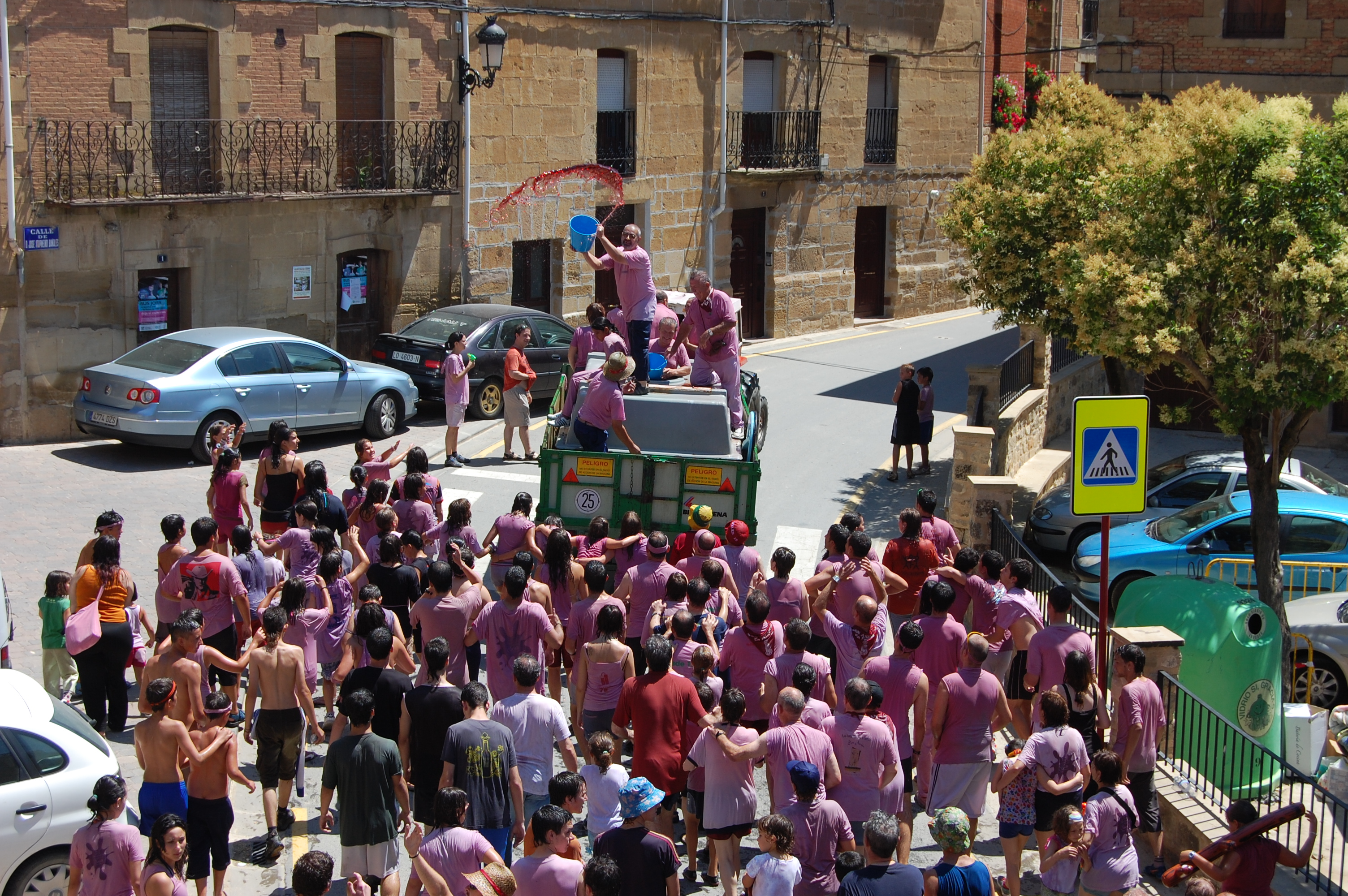 Battle of "clarete" during the local festivities of San Asensio, La Rioja, Spain.